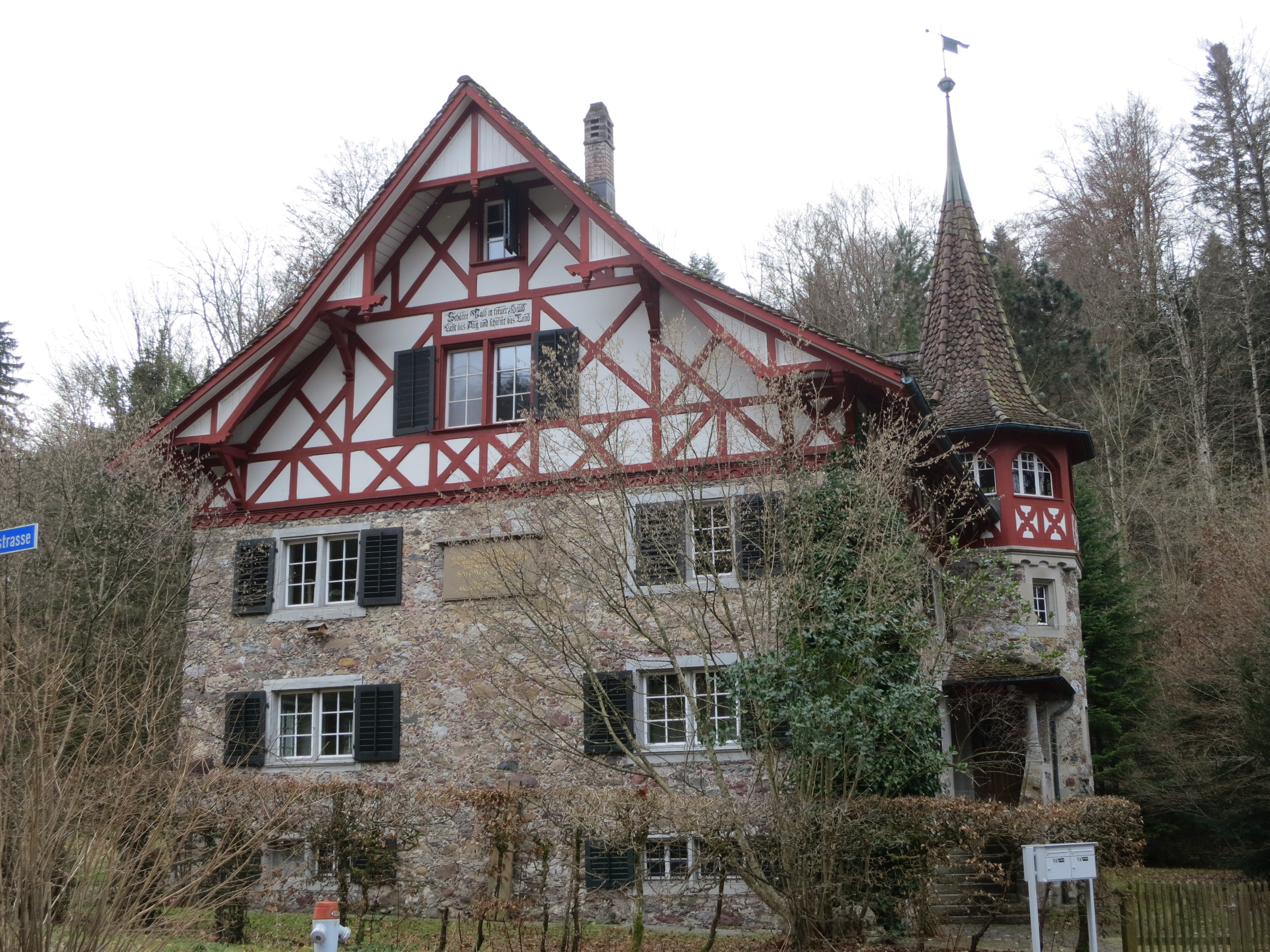 Forsthaus Sihlwald, Horgen ZH, Schweiz